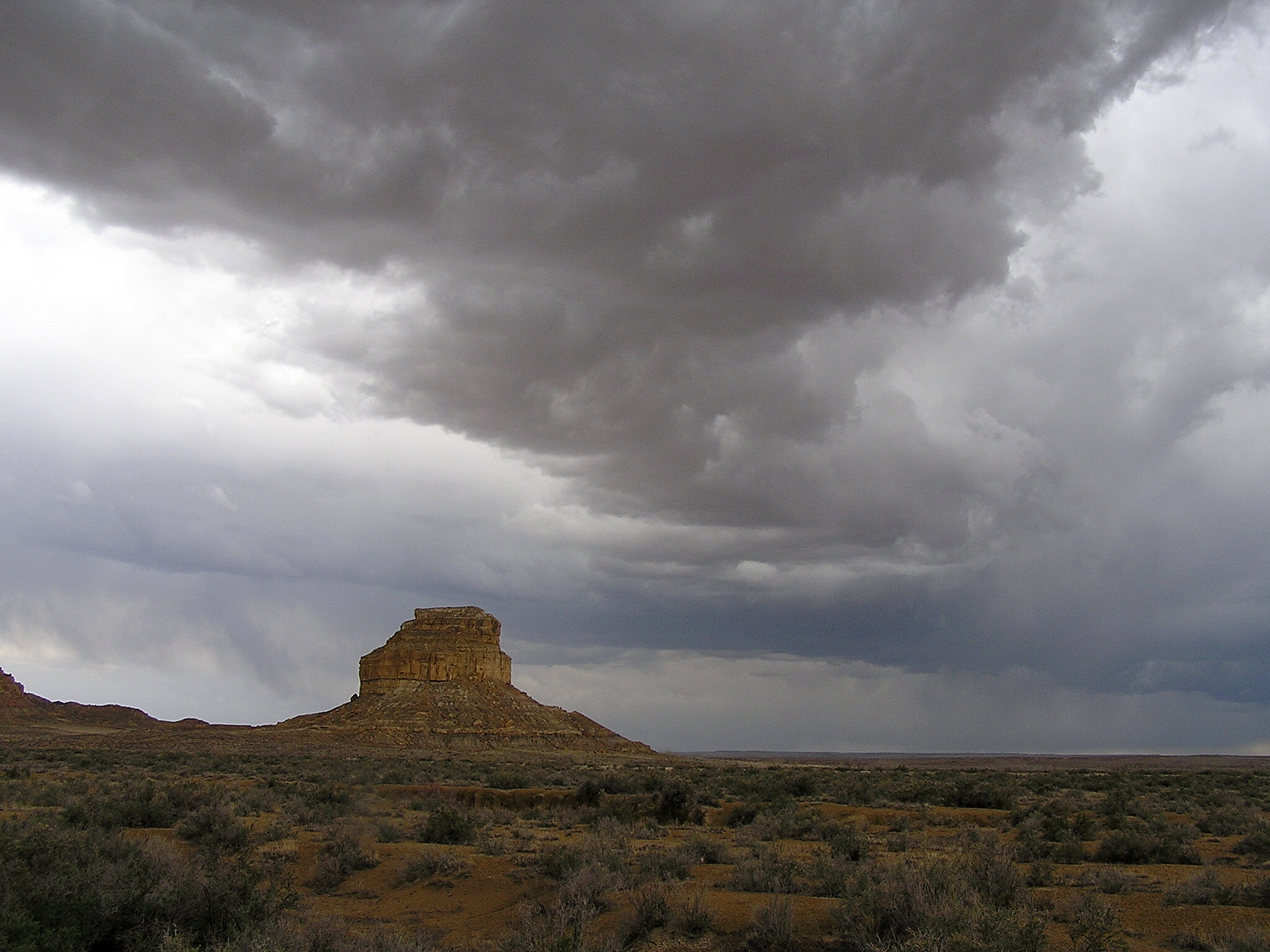 An image of Fajada Butte, Chaco Canyon (New Mexico, United States).